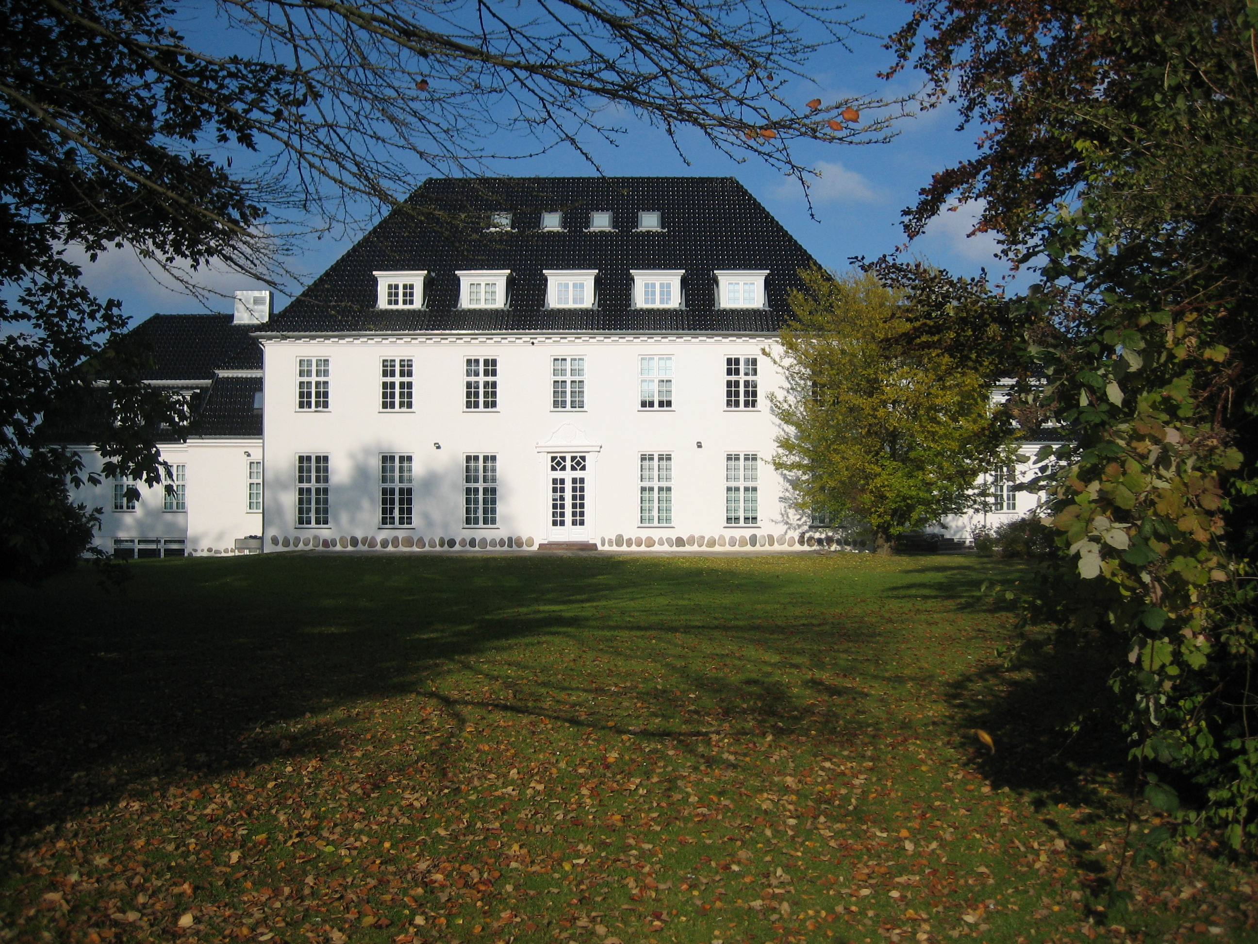 The headquarter of BIMCO